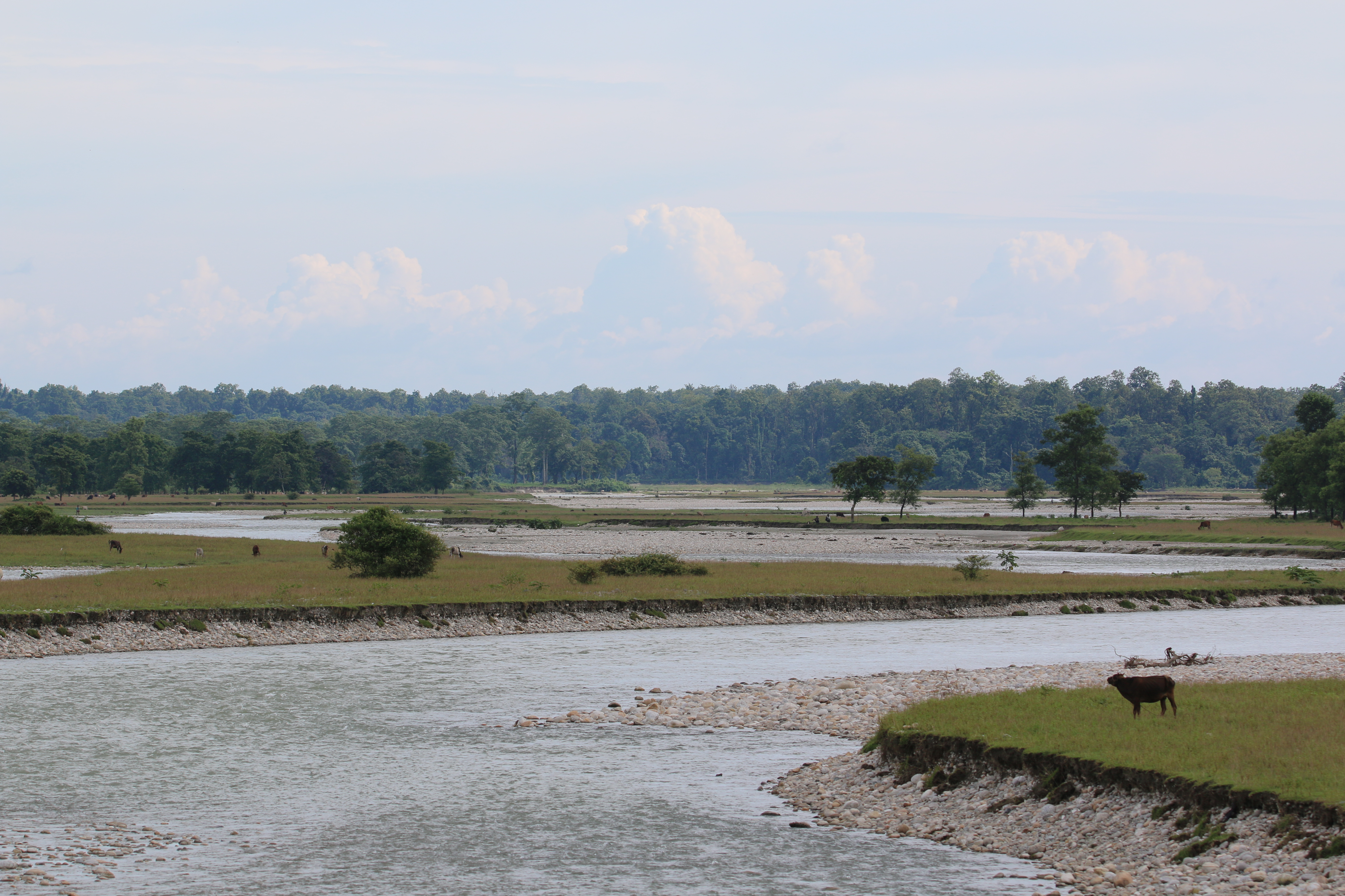 Murti river flowing through Gorumara National Park, North Bengal, India.